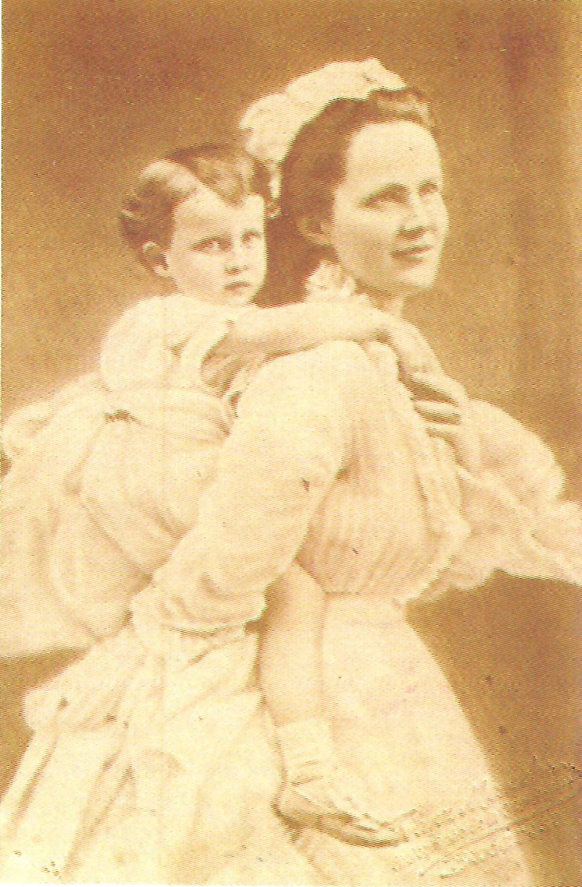 A photograph of Queen Elisabeth of Romania and her daughter, Princess Marie.